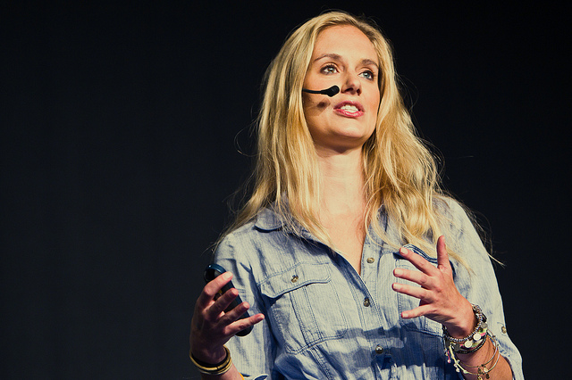 A photo of Rachelle Hruska Macpherson speaking at Big Omaha in 2010.